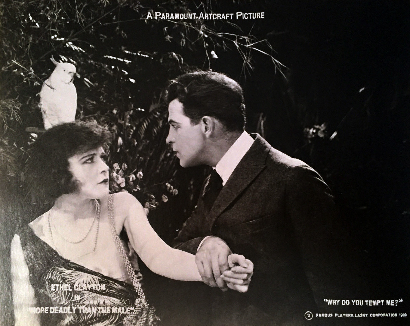 Lobby card for the American film More Deadly Than The Male (1919).